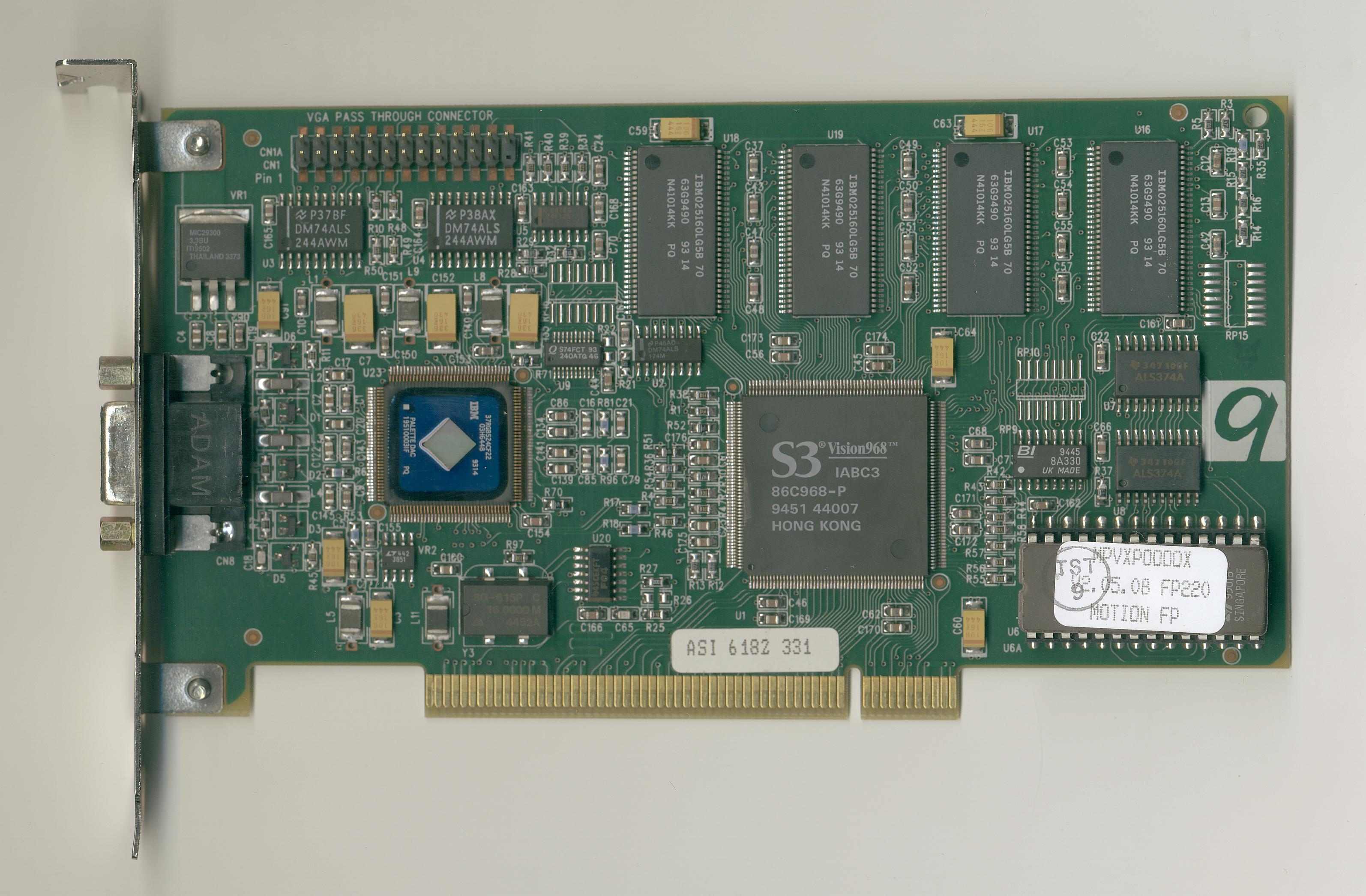 NumberNine Motion771 PCI 4MB (S3 Vision968)